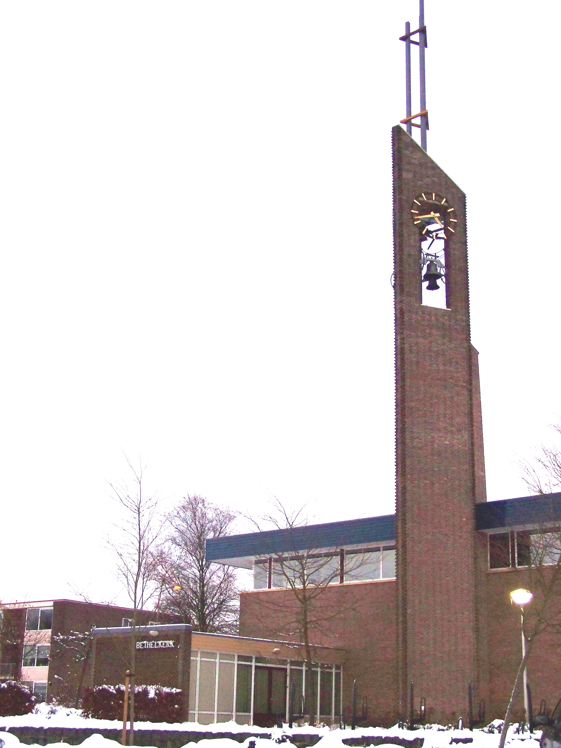 Bethelkerk Ede December 2010